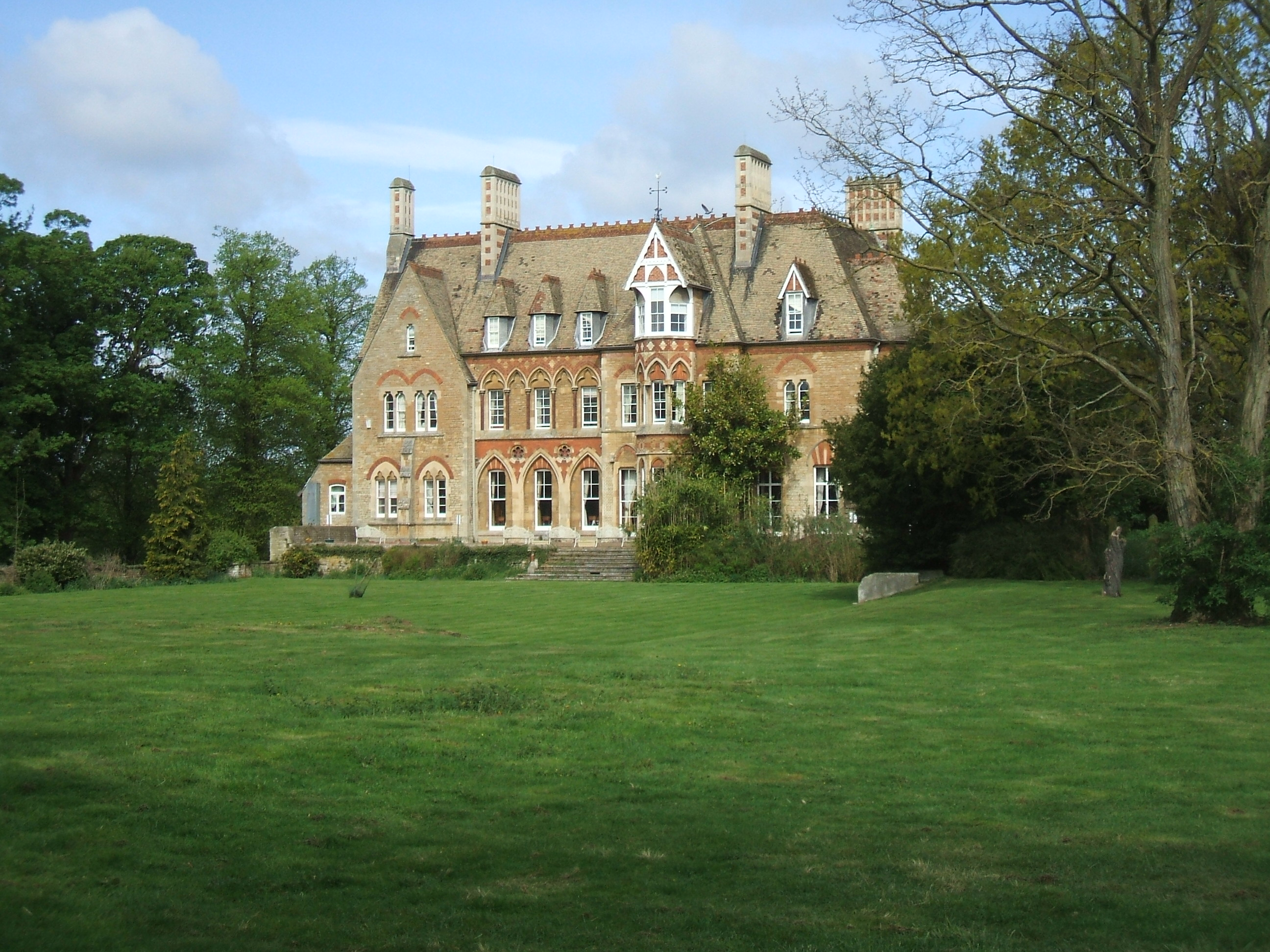 'In the Mood' at Milton Ernest Hall